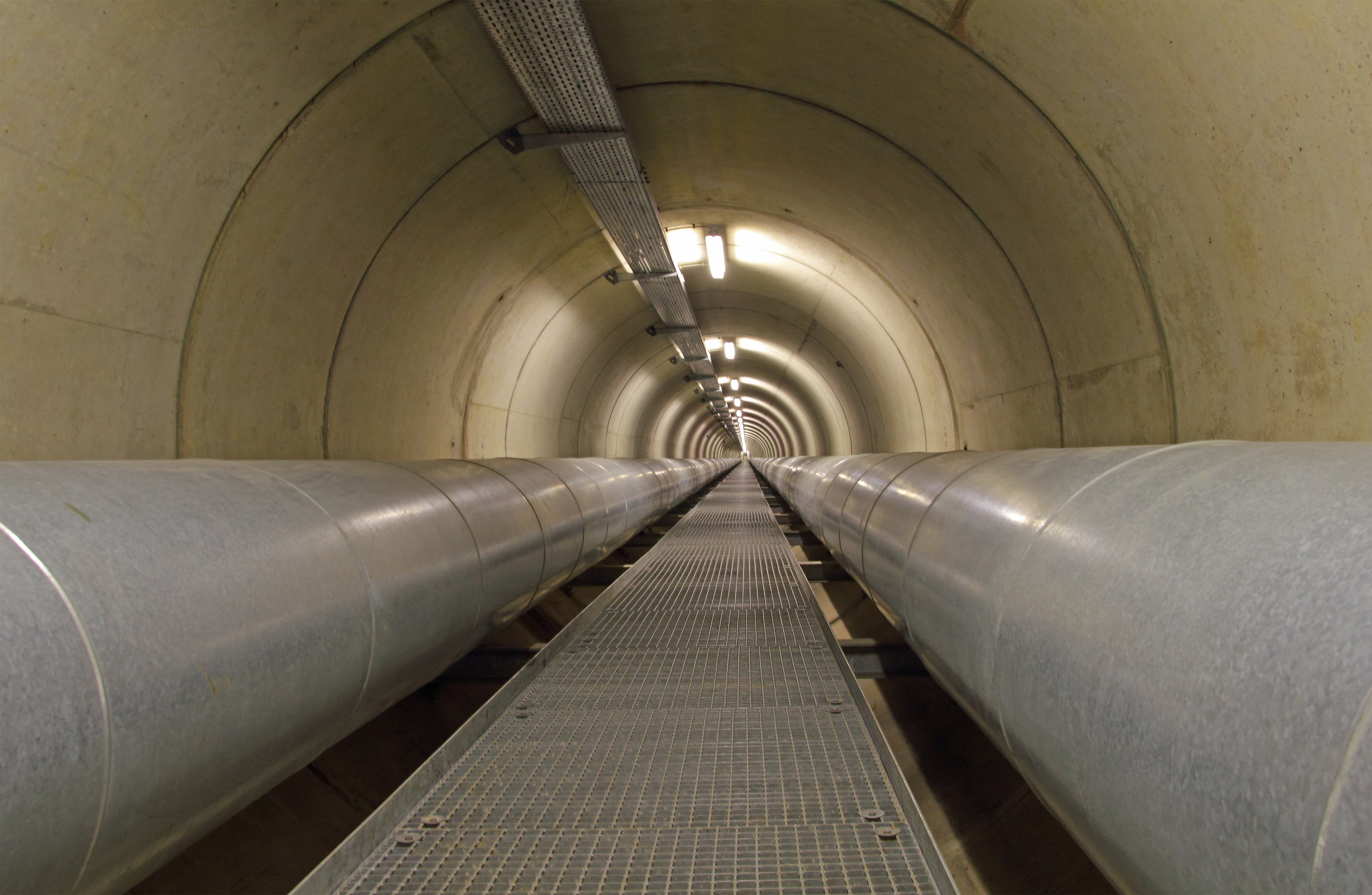 District heating tunnel under the Rhine in Cologne.